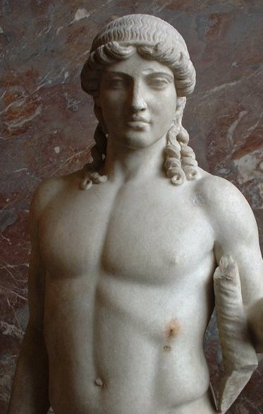 Apollo of the “Mantua Apollo” type, detail. Marble, Roman copy from the 1st–2nd century BC after a 5th century BC Greek original attributed to Polykleitos.